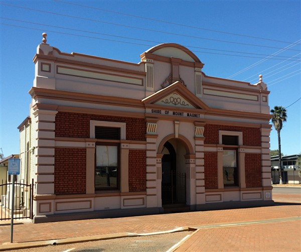 Mount Magnet Shire Office built 1898